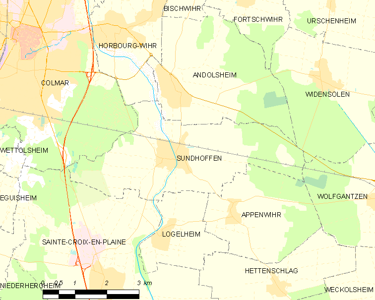 Map of French municipality